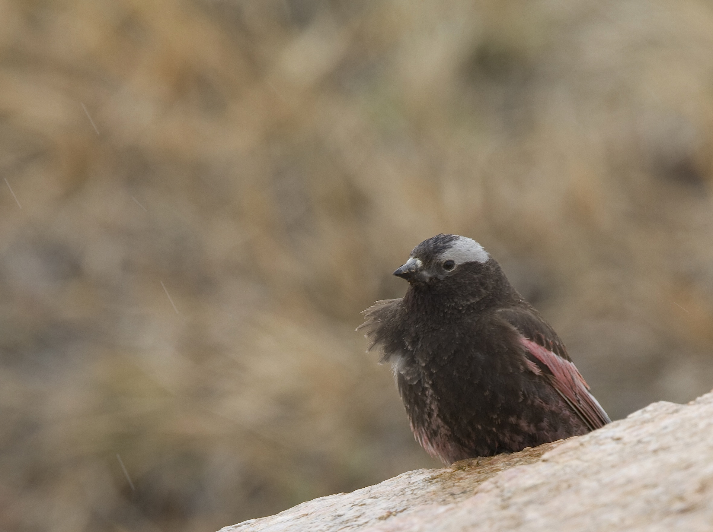 The Black is one of three species of rosy finch in the Western hemisphere that are all found in the U.S, They nest above tree-line, but do move to lower elevations during winter months...